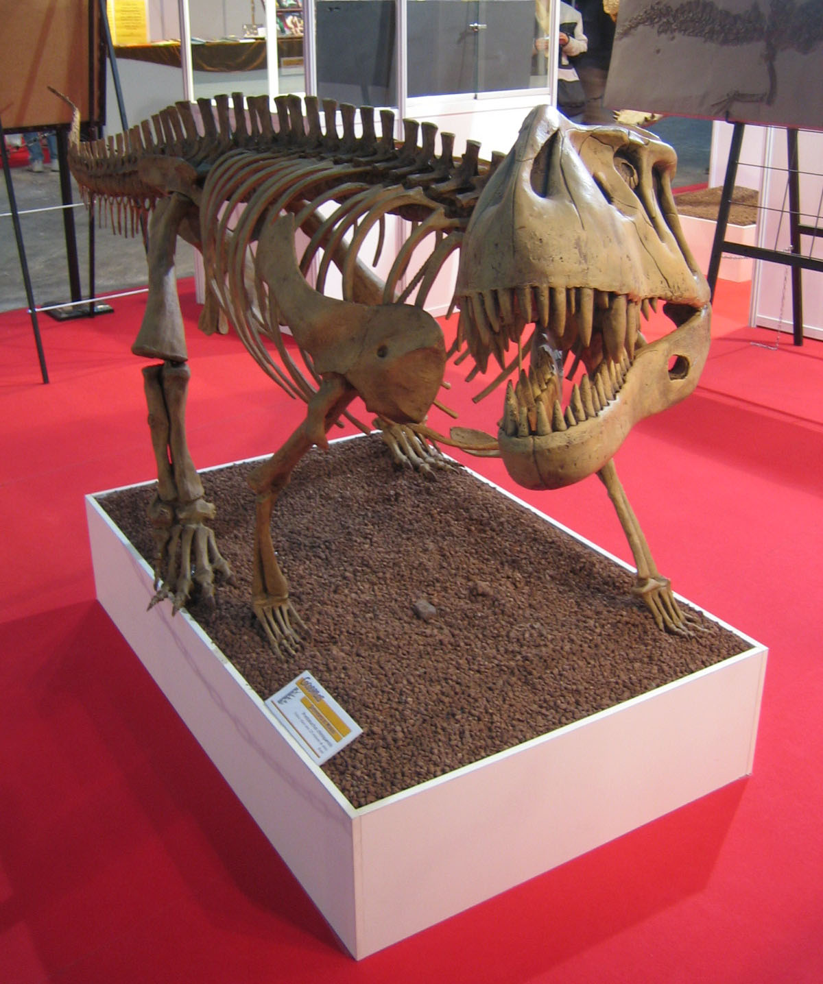 Prestosuchus chiquensis skeleton in Expominer 2007 Barcelona.